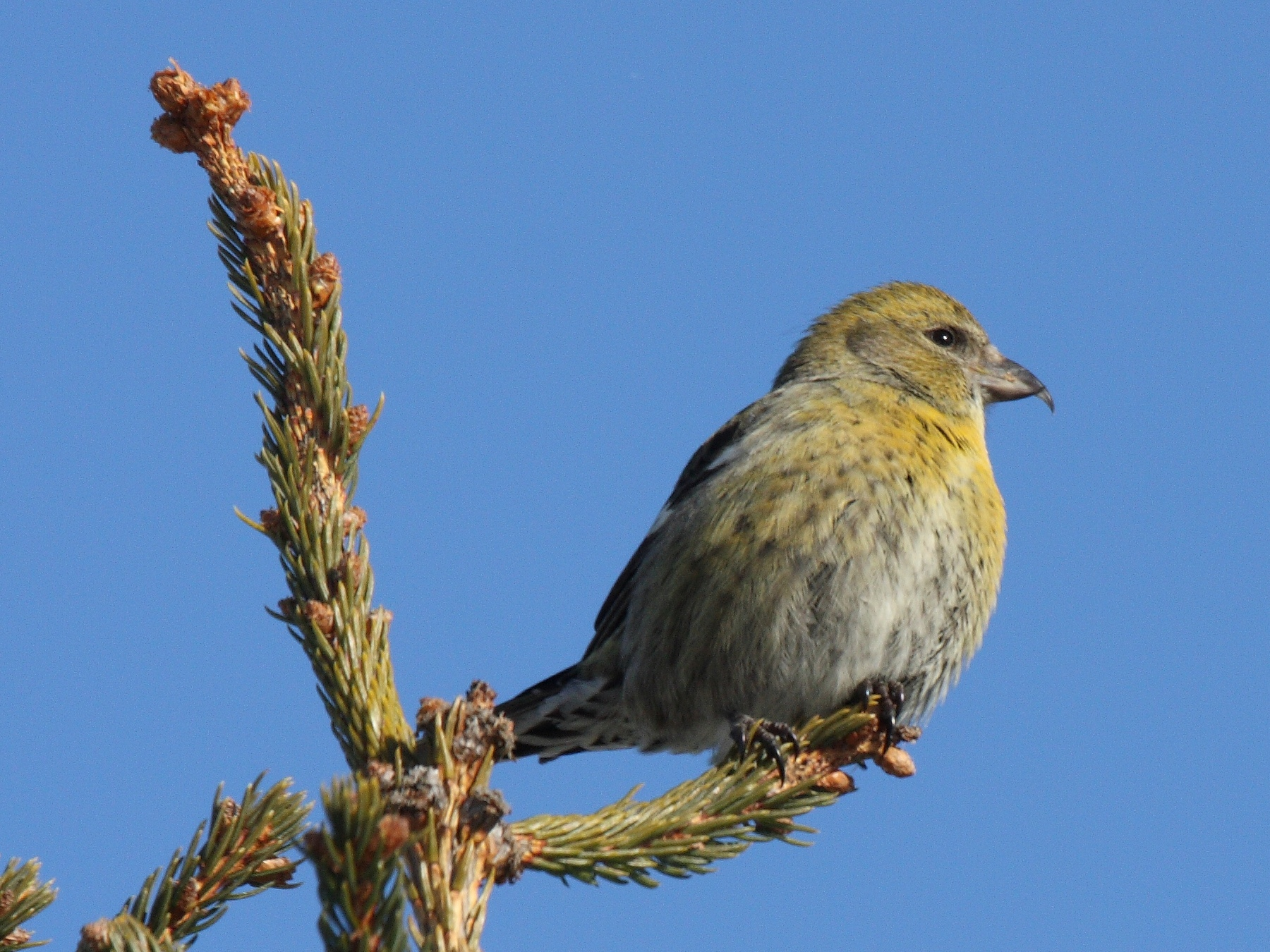 White-winged Crossbill Loxia leucoptera, female